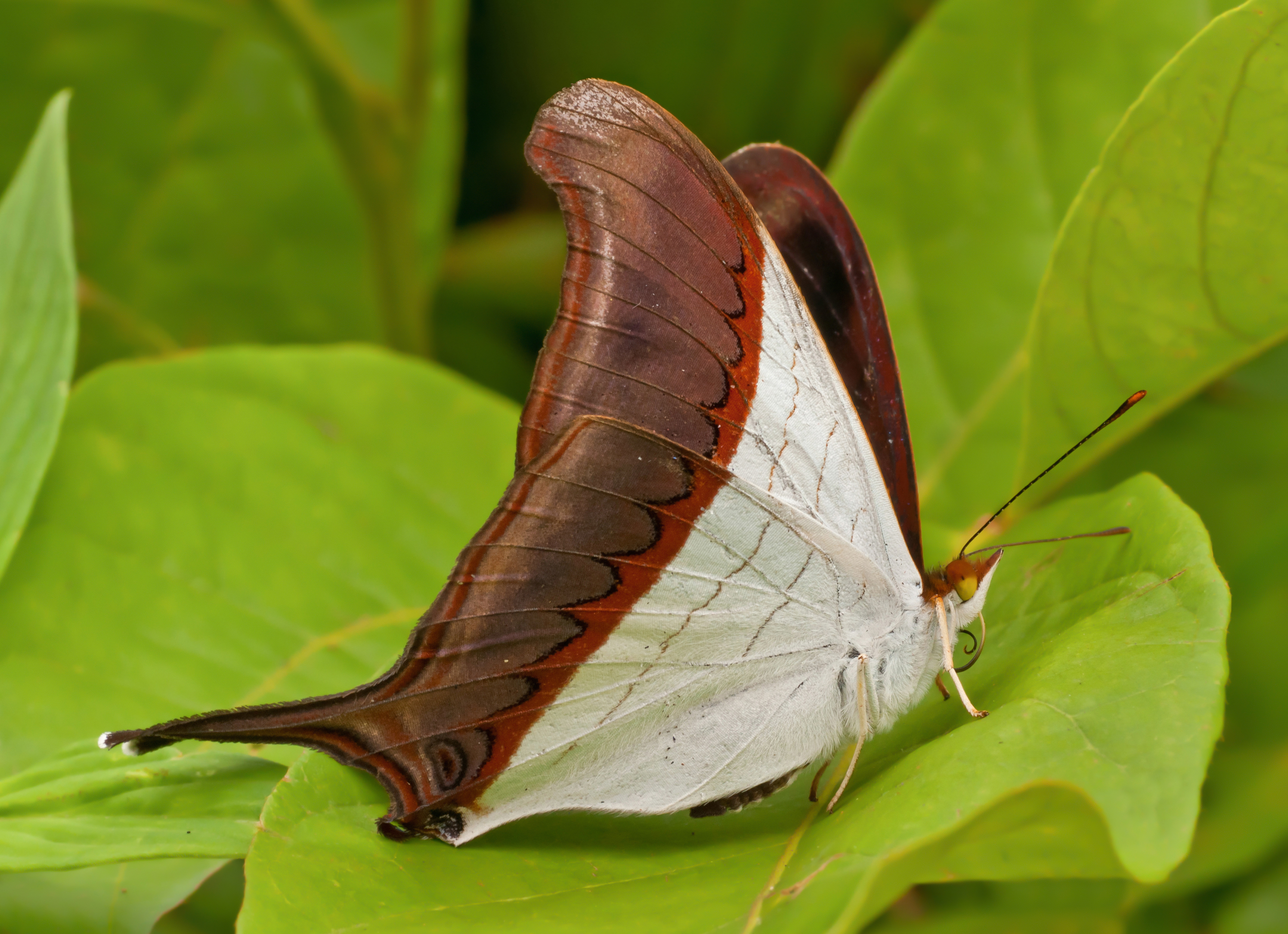 Marpesia zerinthia butterfly found in the Andes mountains in Venezuela, at an altitude of aproximately 1000 meters above sea level.